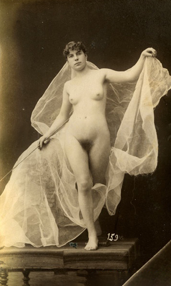 Erotic photograph by Gaudenzio Marconi